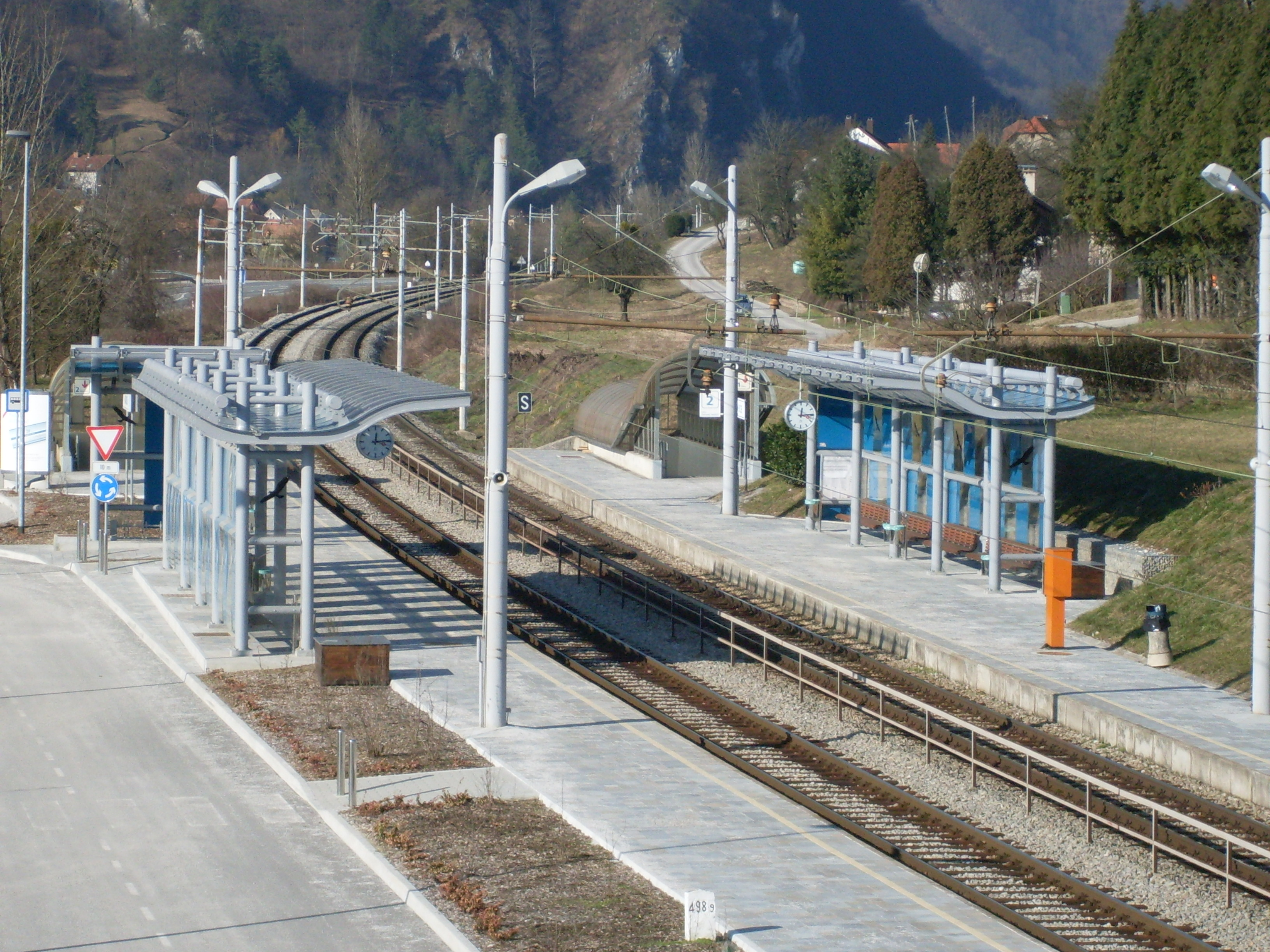 Rail halt in Radeče